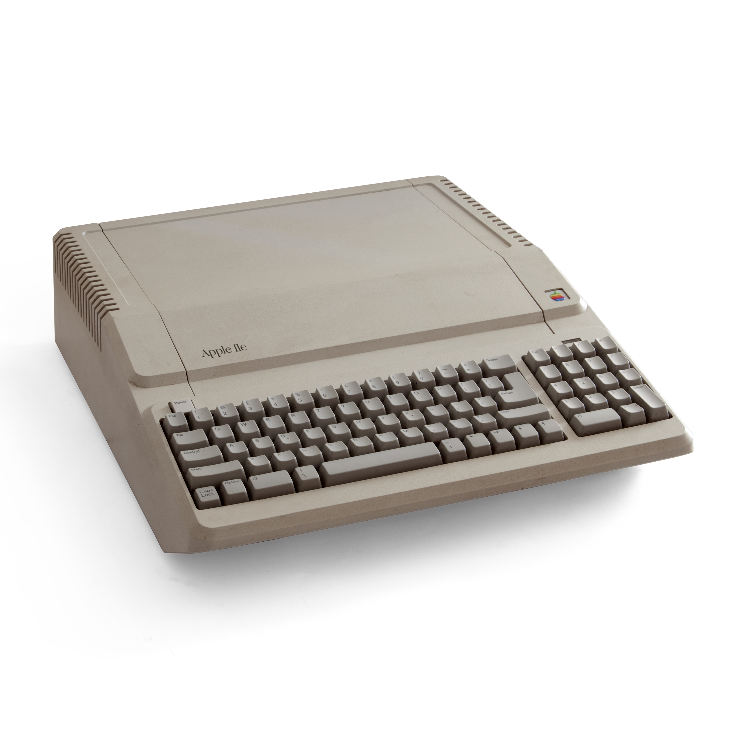 Apple IIe Platinum computer.